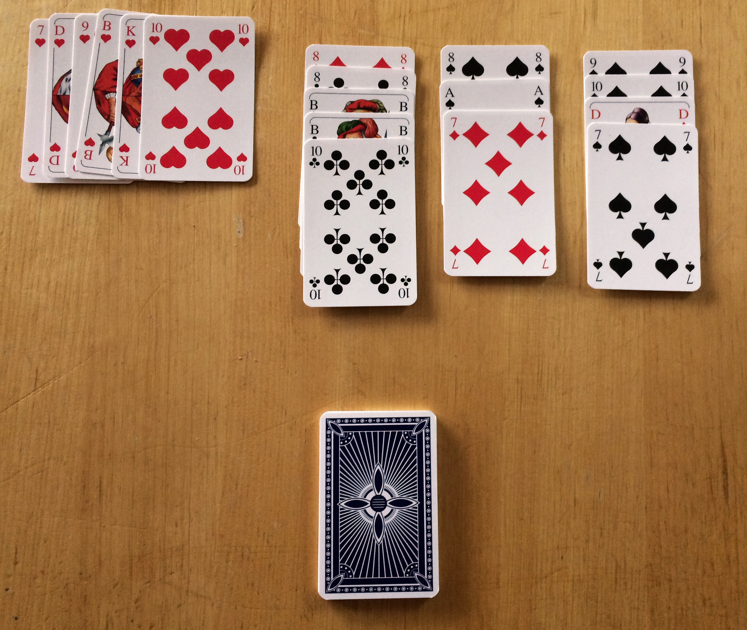 Patience "Herz zu Herz" ("Heart to Heart")